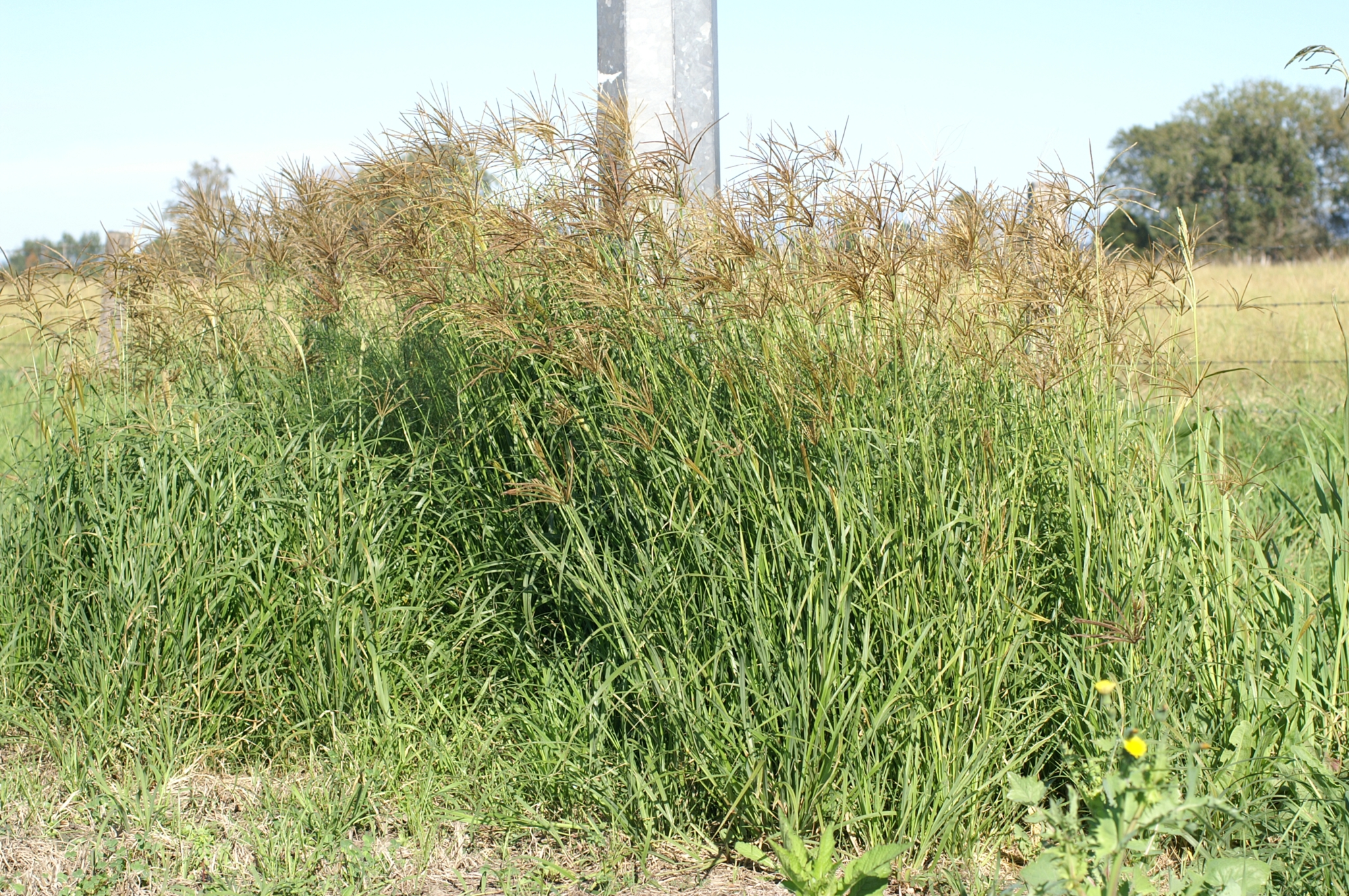 Widely sown as a pasture species and roadside stabilizer. Requires reasonably well-drained soils. Suited to drier and less fertile conditions than setaria or kikuyu, but persists best under fertile conditions.